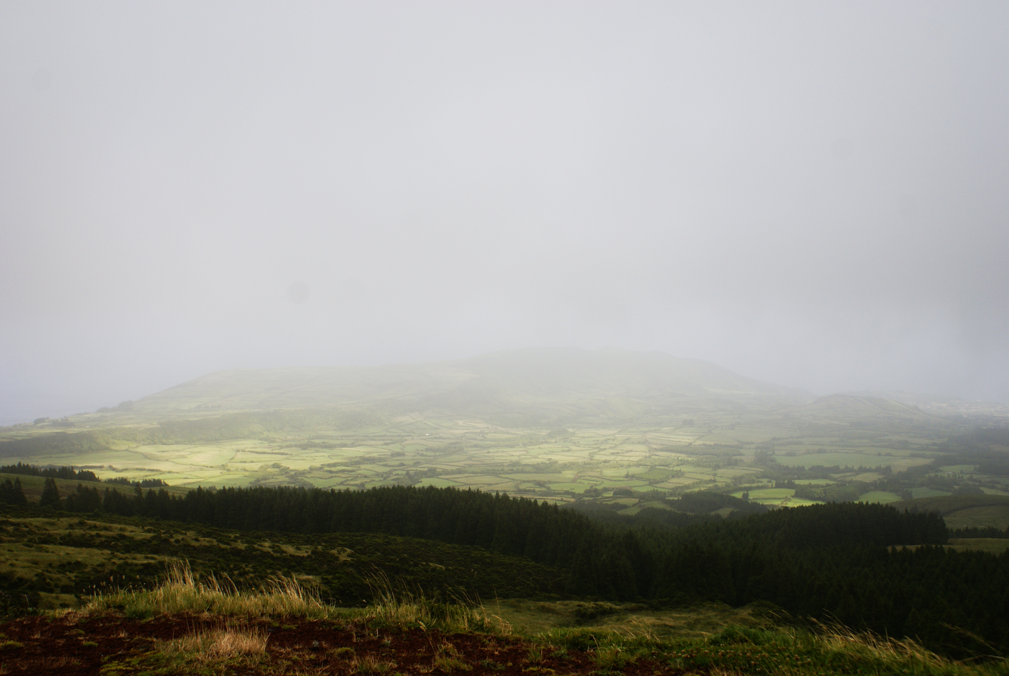 Miradouro do Cabouco, as brumas descem a serra, ilha do Faial, Açores, Portugal